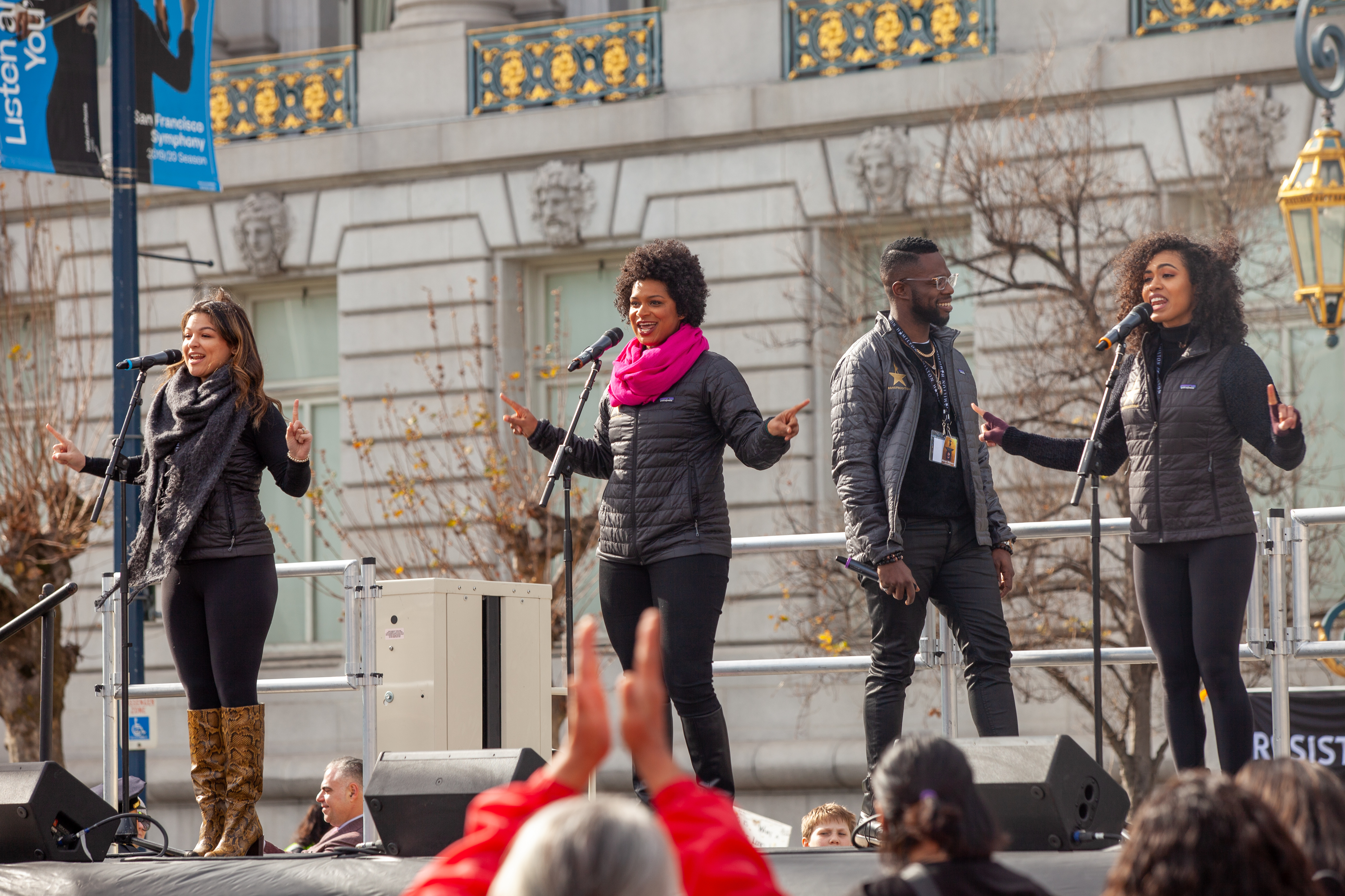 Members of the touring cast of "Hamilton" perform "The Schuyler Sisters" at the 2020 San Francisco Women's March.